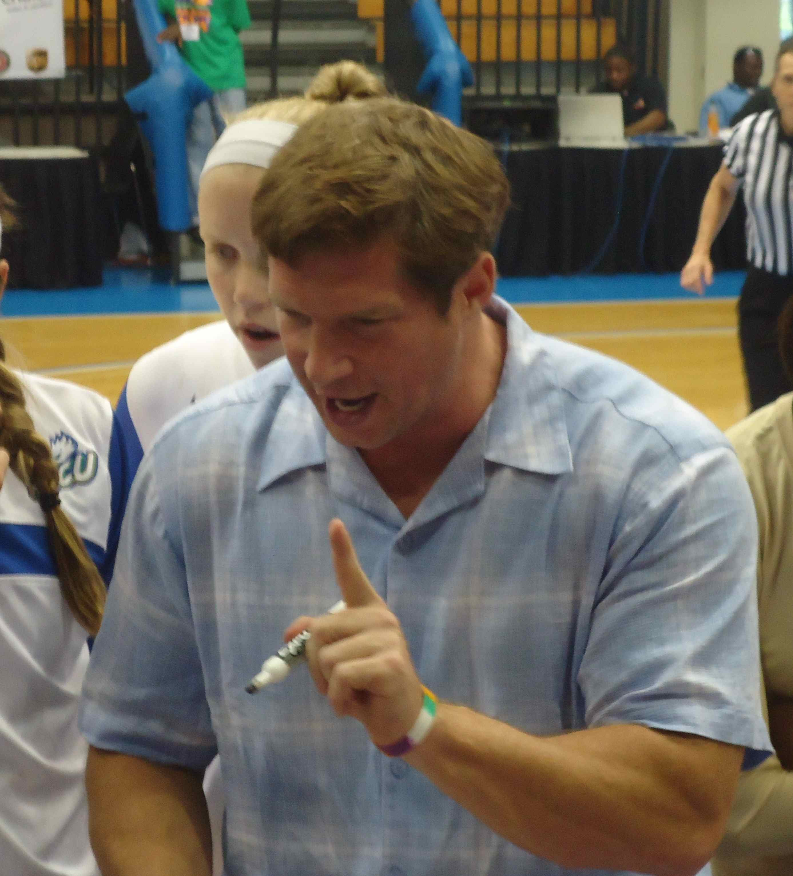 Karl Smesko, head coach Florida Gulf Coast women's basketball team, talking to his team during a timeout at the 2012 Paradise Jam in St. Thomas, US Virgin Islands.